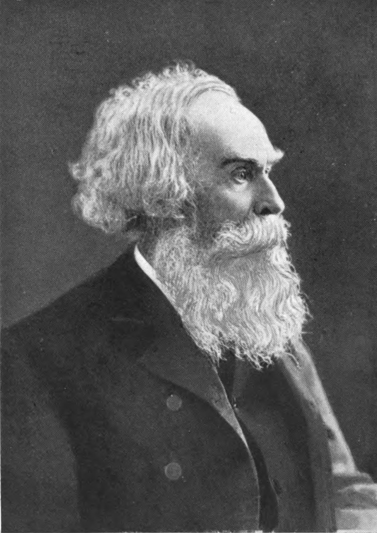 Professor John Le Conte